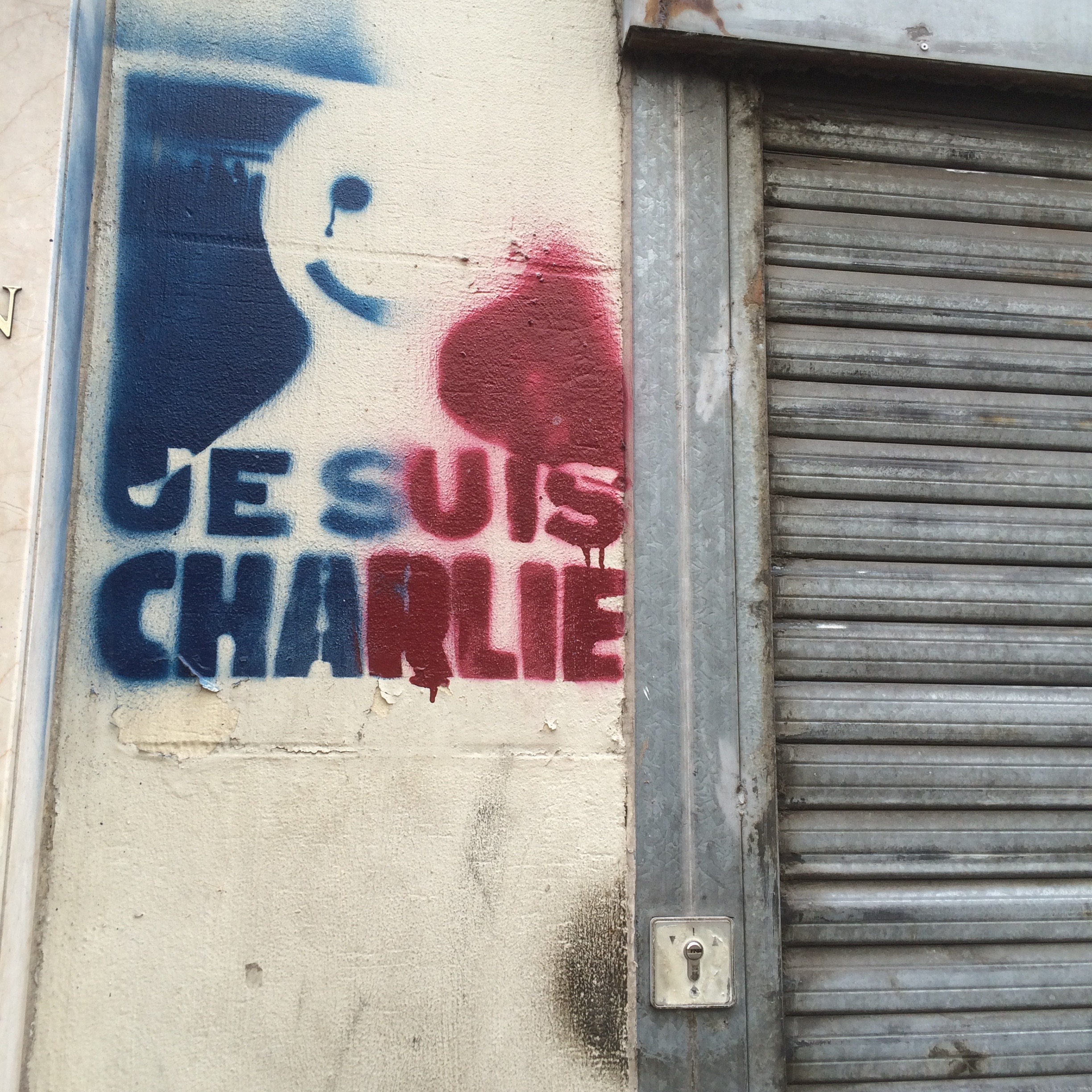 Street art depicting 'Je suis Charlie.' Taken in July 2015.